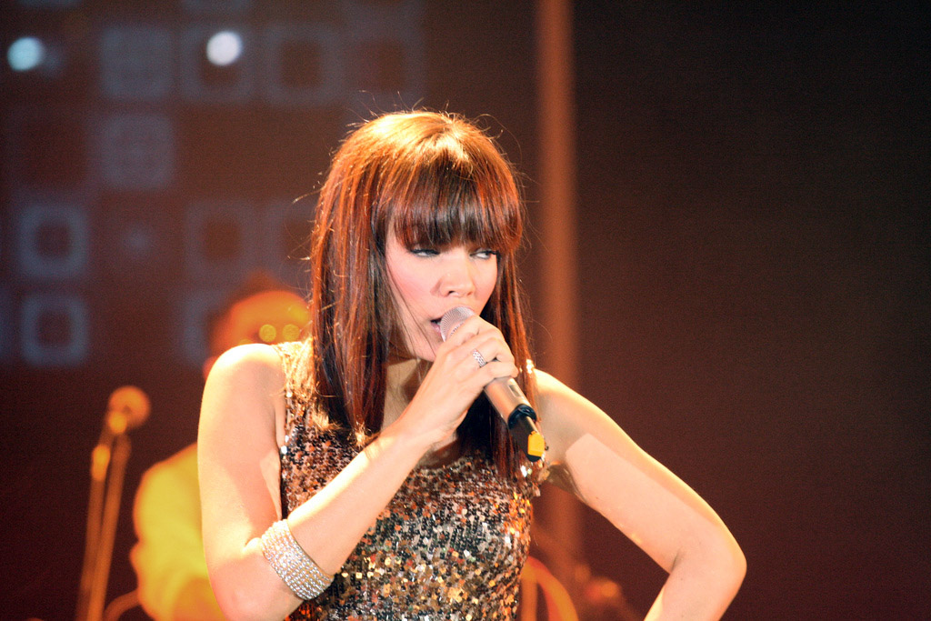 Indonesian singer Dewi Sandra performing at the Surabaya Urban Jazz Crossover in June 2010